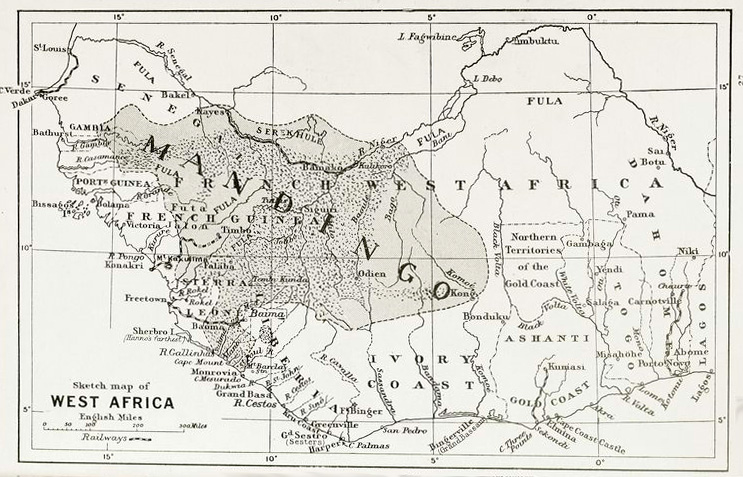 Sketch map of West Africa to show area of Mandingo peoples, languages and influence